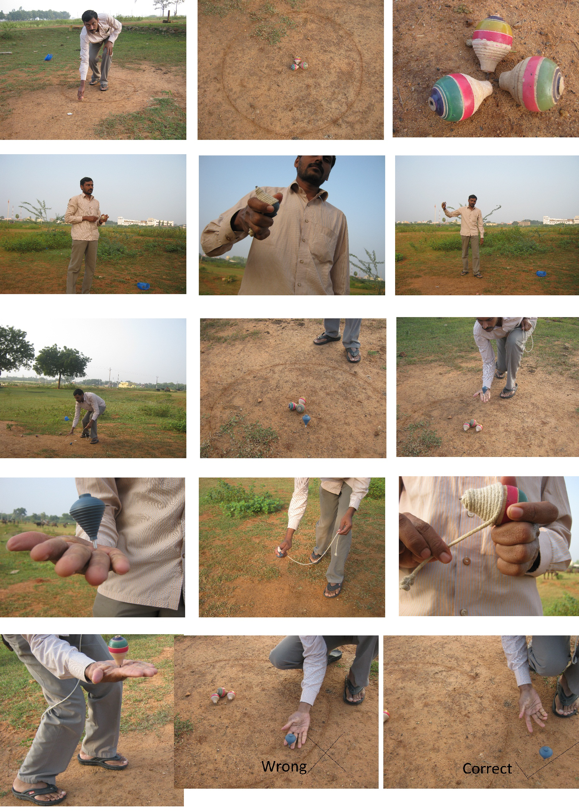 Gaming Top in India